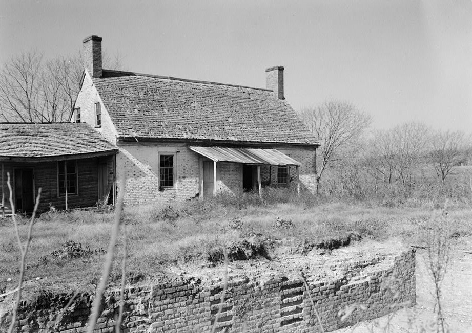 Kingsmill Plantation, Dependencies, Kingsmill Pond vicinity, Williamsburg vicinity (James City, Virginia) cropped This file comes from the Historic American Buildings Survey (HABS), Historic American Engineering Record (HAER) or Historic American Landscapes Survey (HALS). These are programs of the National Park Service established for the purpose of documenting historic places. Records consist of measured drawings, archival photographs, and written reports. When reusing please credit: Library of Congress, Prints & Photographs Division, VA,48-WIL.V,4-1 This tag does not indicate the copyright status of the attached work. A normal copyright tag is still required. See Commons:Licensing for more information. English | +/− This work is in the public domain in the United States because it is a work prepared by an officer or employee of the United States Government as part of that person’s official duties under the terms of Title 17, Chapter 1, Section 105 of the US Code. See Copyright. Note: This only applies to original works of the Federal Government and not to the work of any individual U.S. state, territory, commonwealth, county, municipality, or any other subdivision. This template also does not apply to postage stamp designs published by the United States Postal Service since 1978. (See 206.02(b) of Compendium II: Copyright Office Practices). It also does not apply to certain US coins; see The US Mint Terms of Use. This file has been identified as being free of known restrictions under copyright law, including all related and neighboring rights.